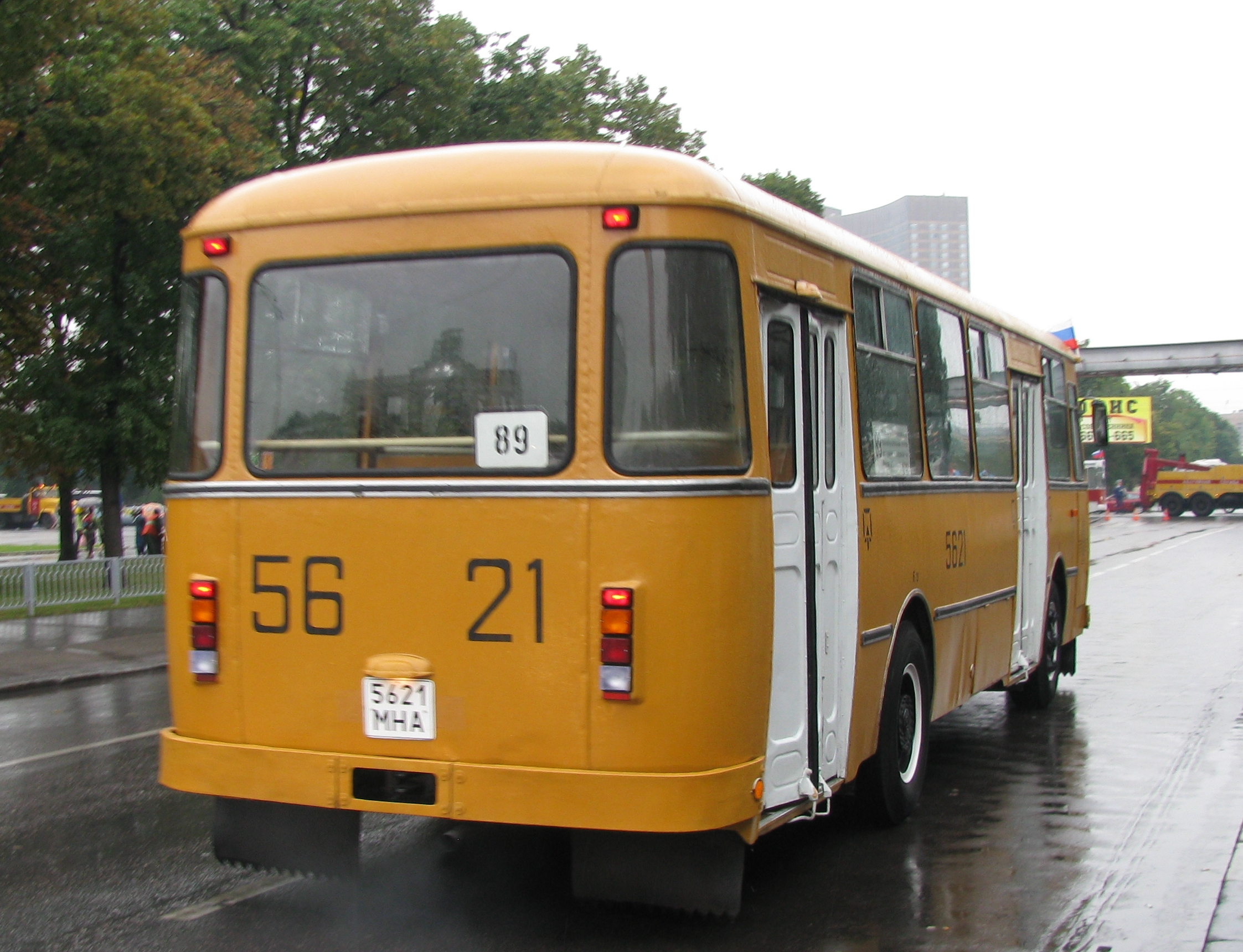 LiAZ-677M in Moscow